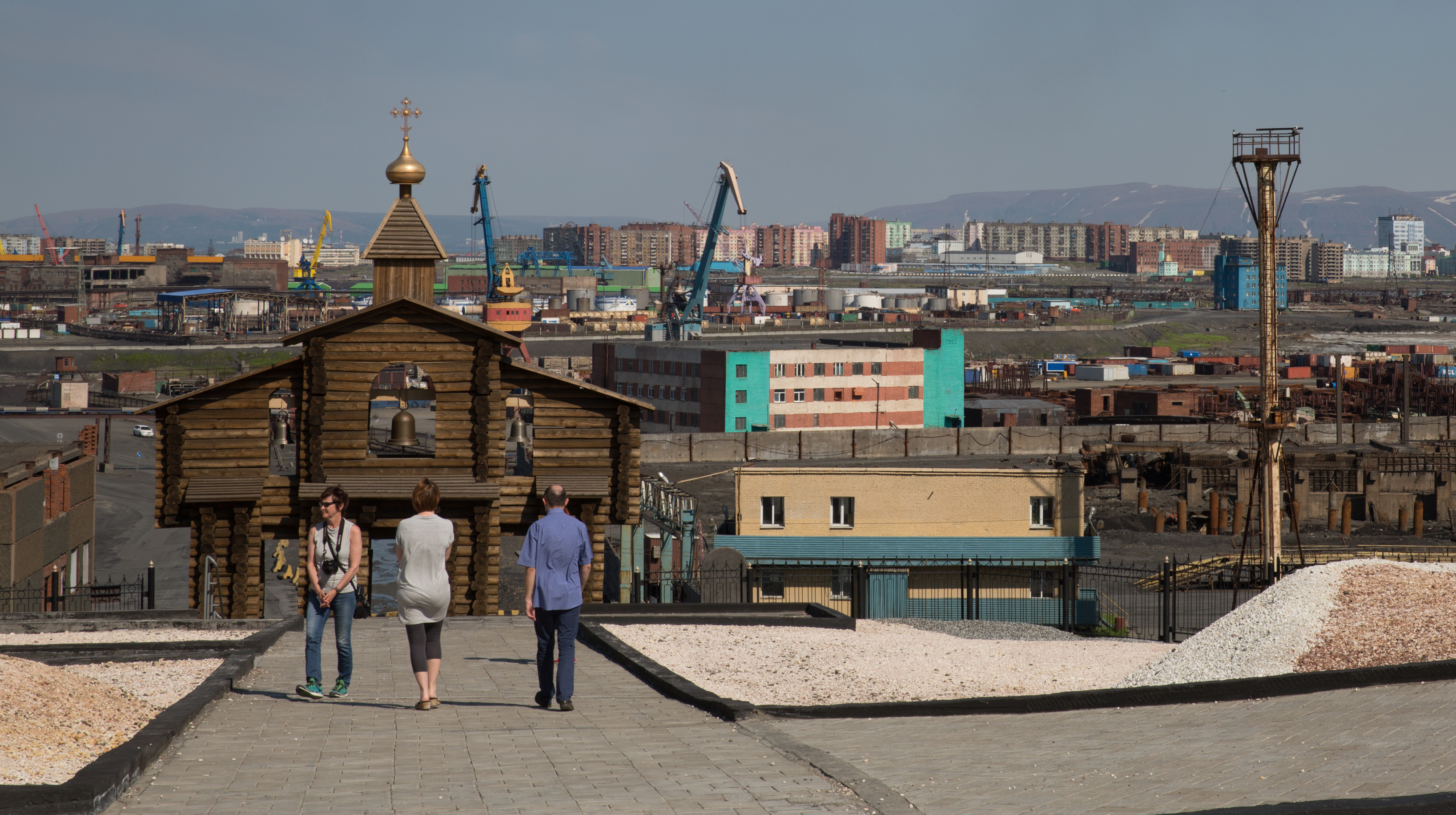 Memorial for Gulag victims in Norilsk "Golgotha", view to the city of Norilsk